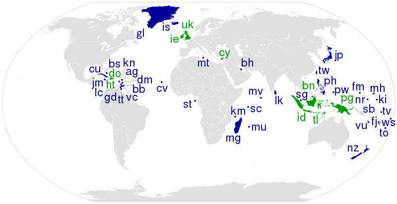 Island_nation